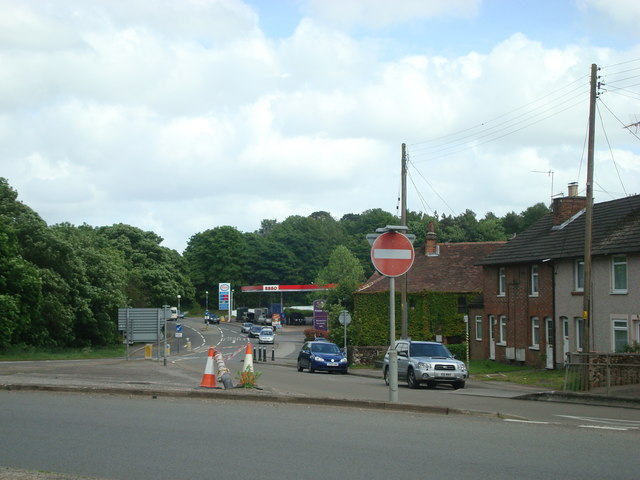 Junction of A25 and A20, Wrotham Heath